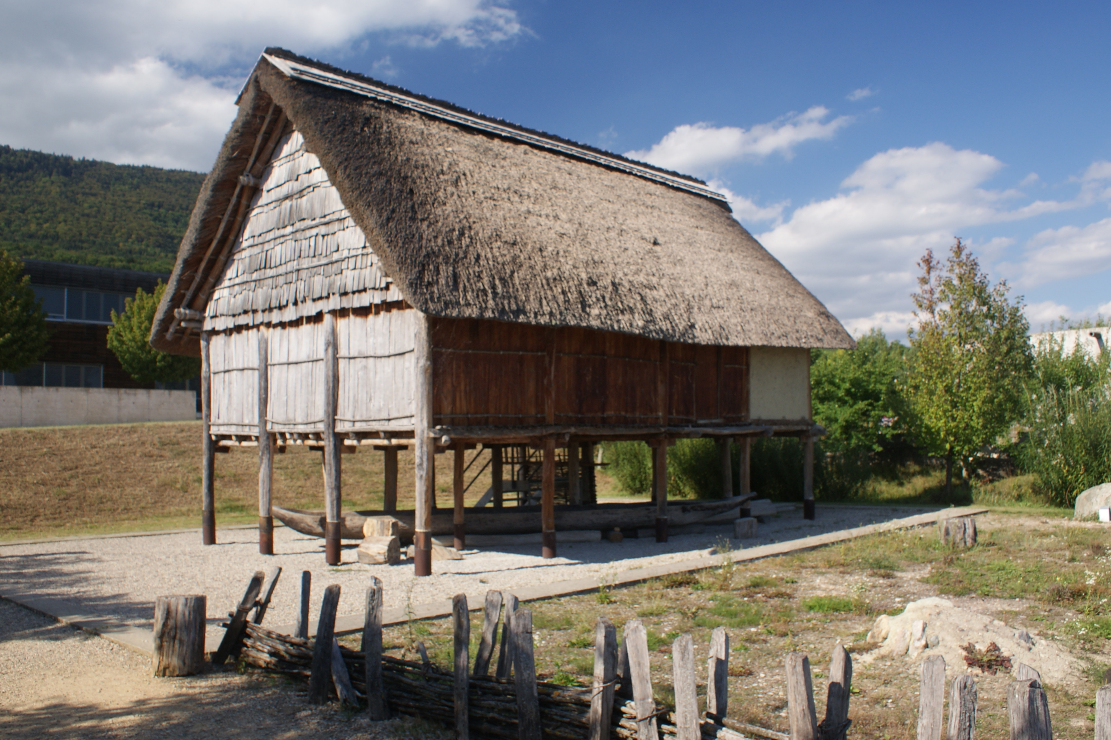 Reconstruction of a neolithic hut in the park of the Laténium museum, in Hauterive, Switzerland